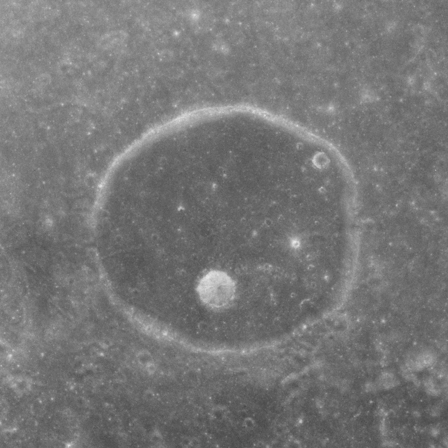 Jansen, on the moon.